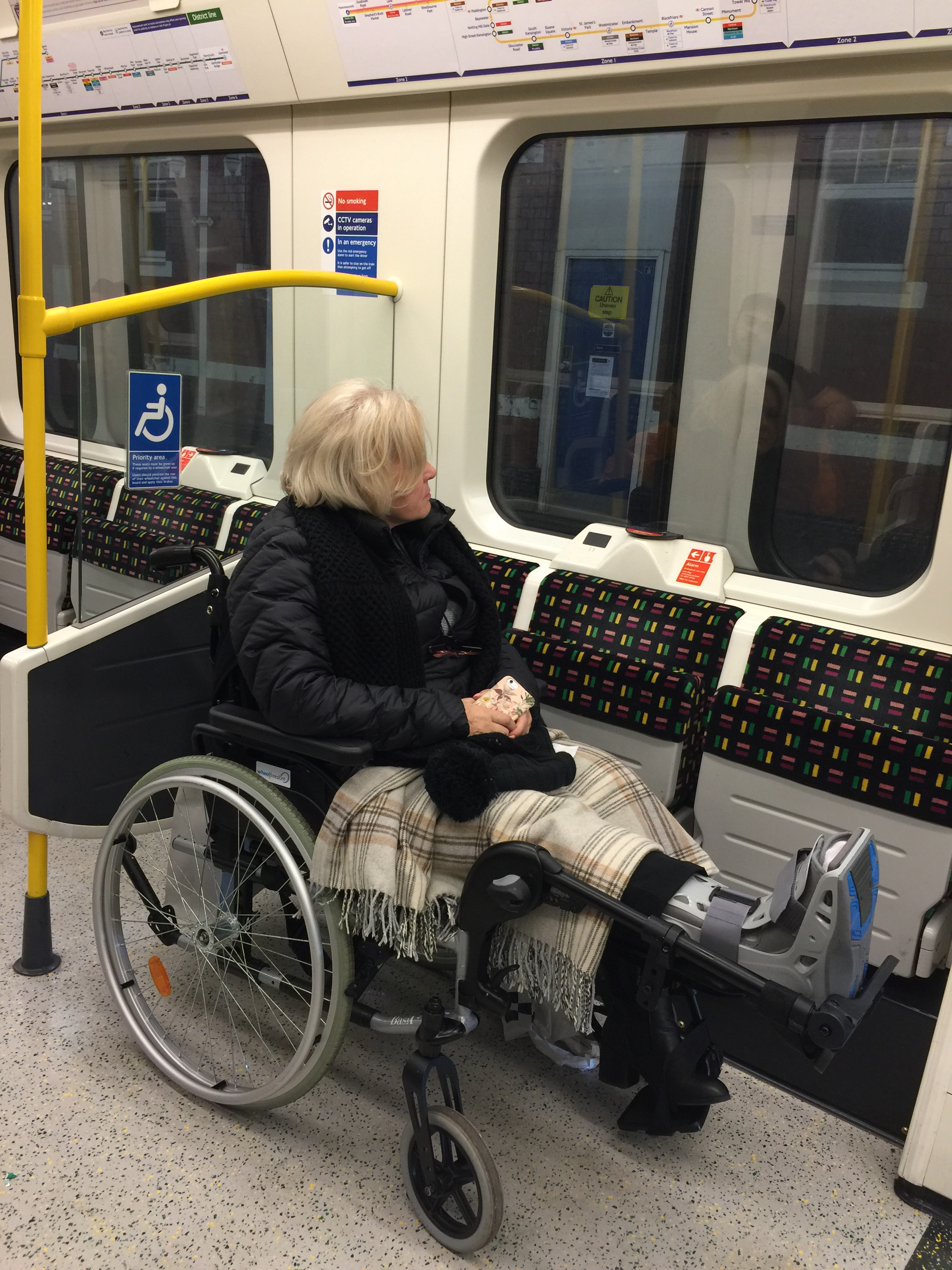 Disabled person on the Tube train (Hammersmith and City, 2016)